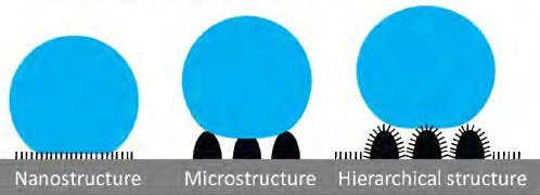 roughness of a surfaces with unitary and hierarchical structure